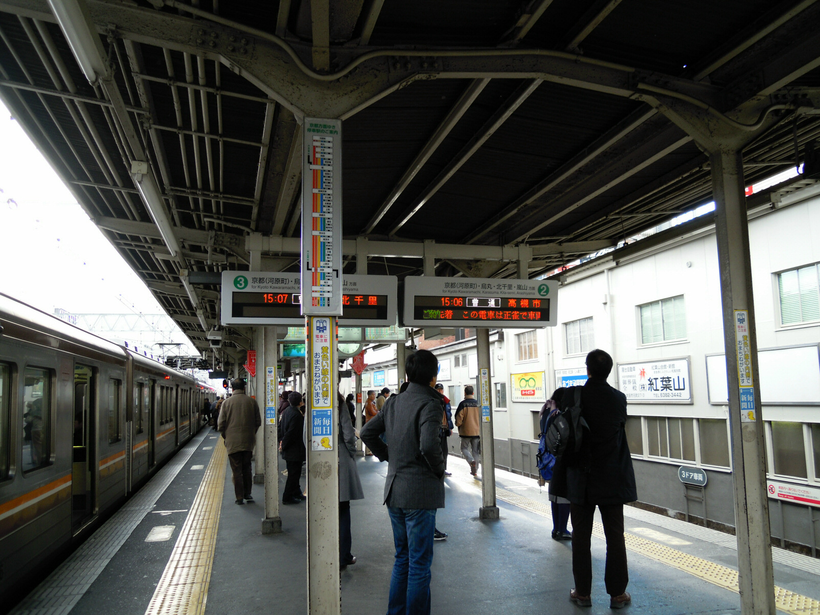 Hankyu Awaji station platform